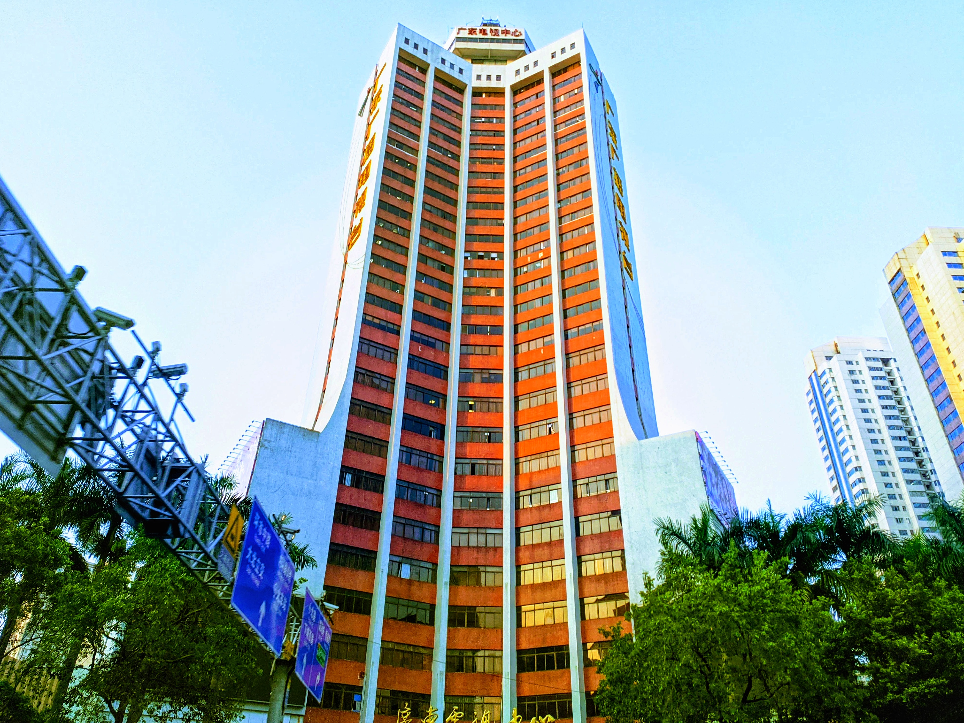 Guangdong Television Center